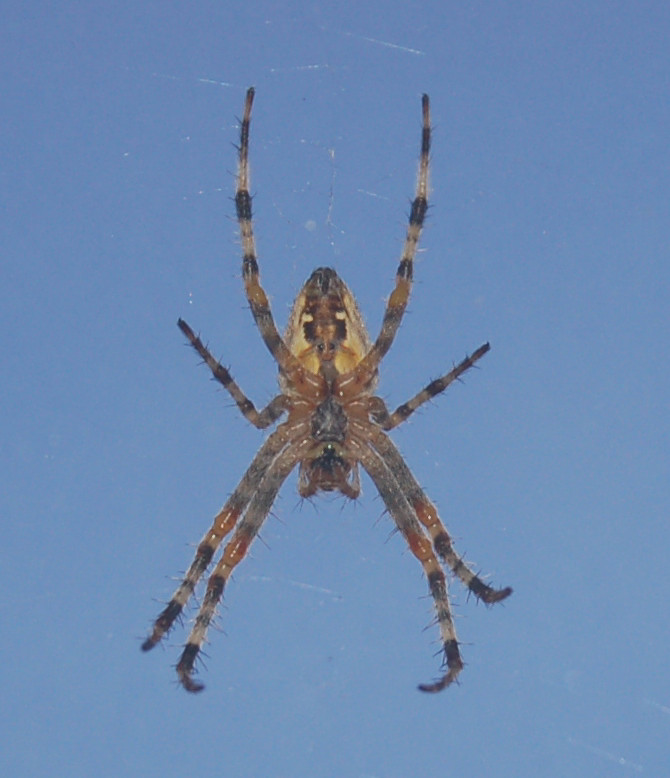 Male Araneus Cavaticus